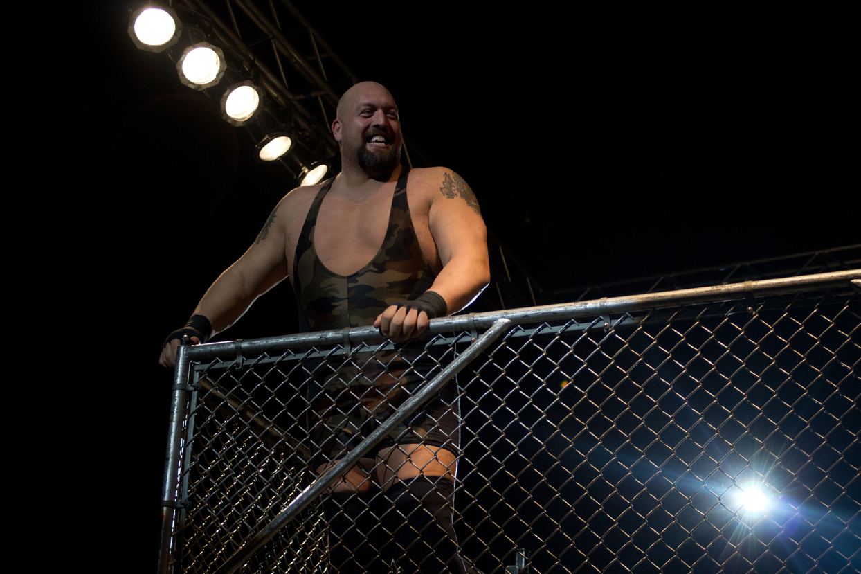 Big Show Plays to the Crowd